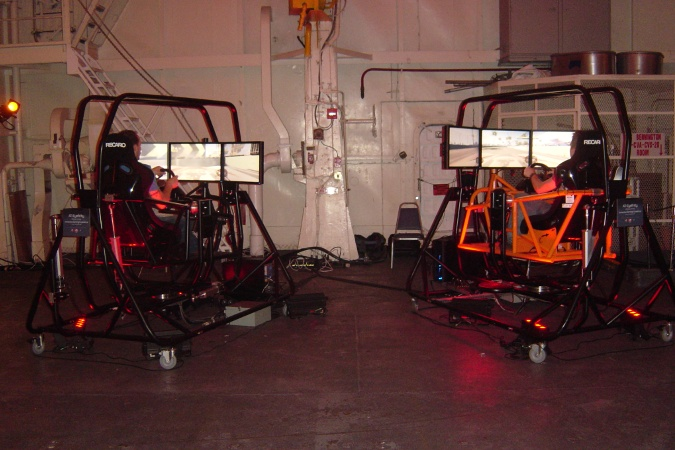 USS Hornet Press Event with AMD Eyefinity on SimCraft racing simulators.